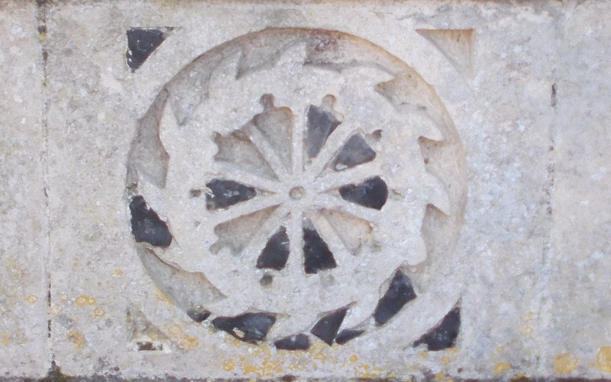 Medieval flint flushwork panel at St Peter's Hall, South Elmham, Suffolk, depicting the St Catherine's wheel symbol